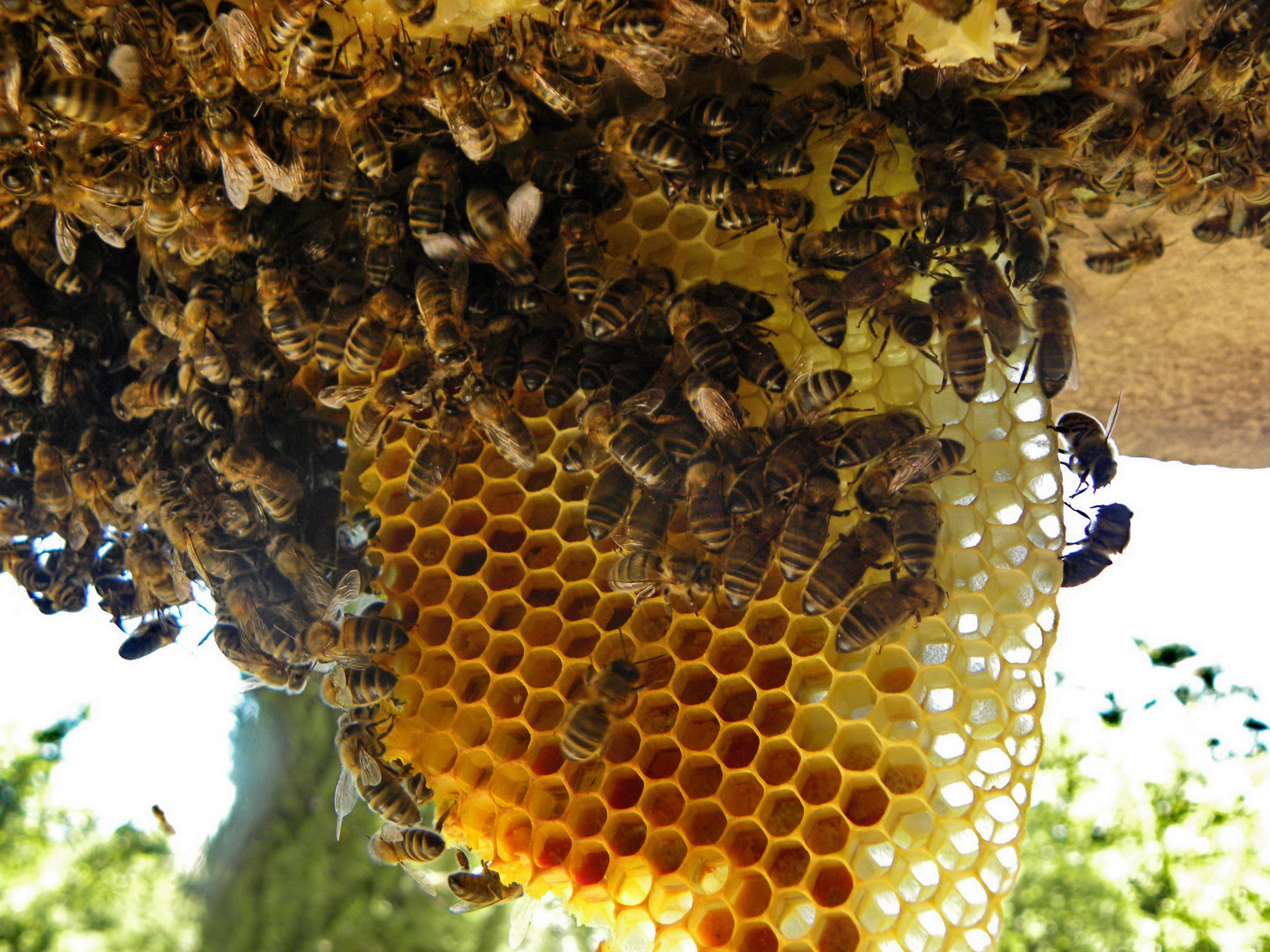 Swarm gathering in Mons, Var.